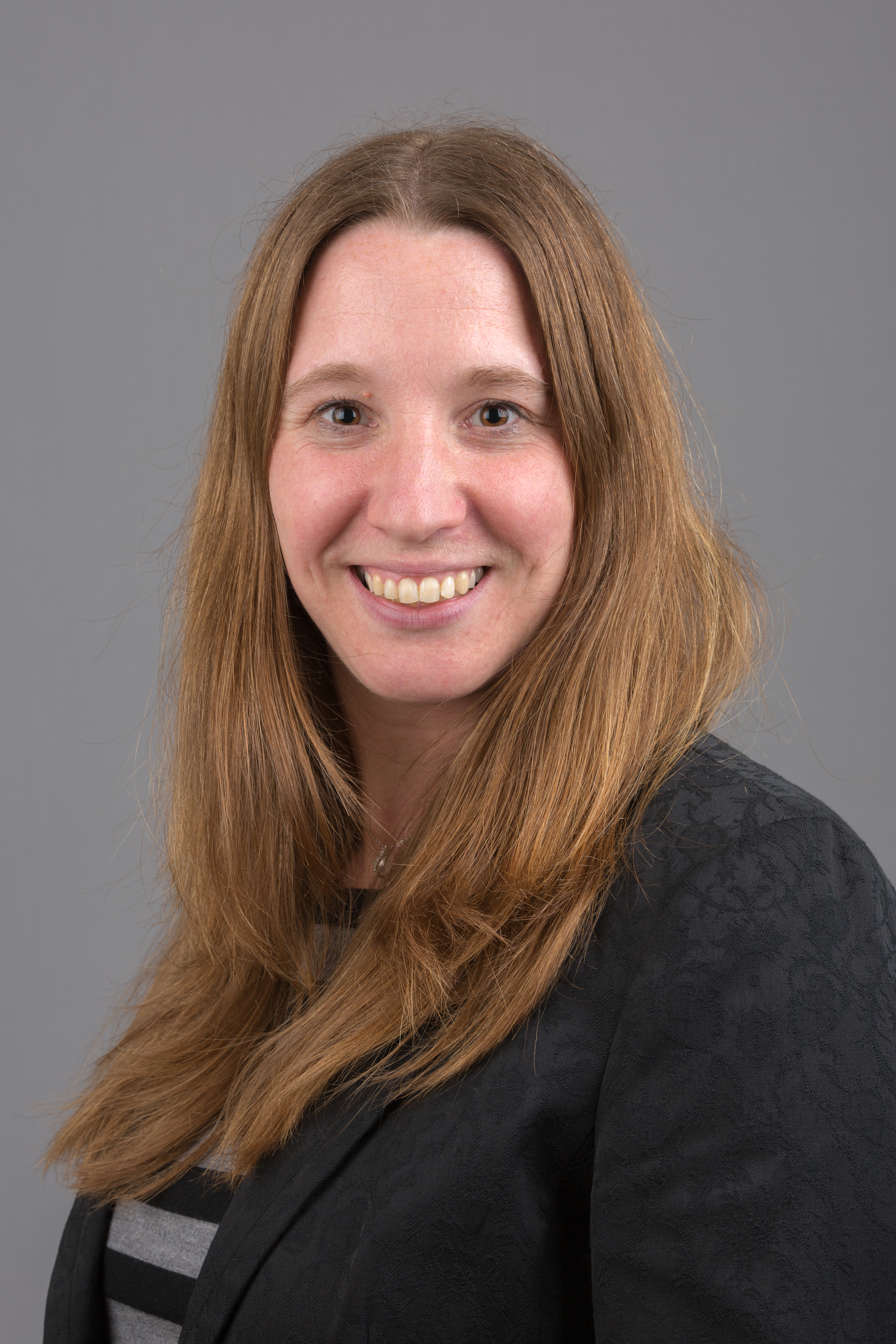 Daniela Sommer, member of the Landtag of Hesse